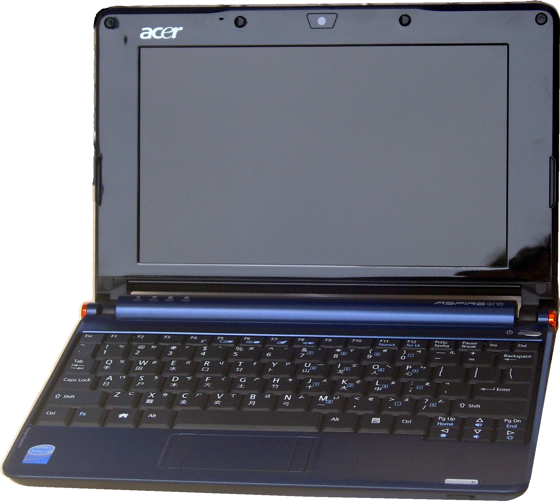 Launch of Guang Hua Digital Plaza: Acer Aspire One, with white background